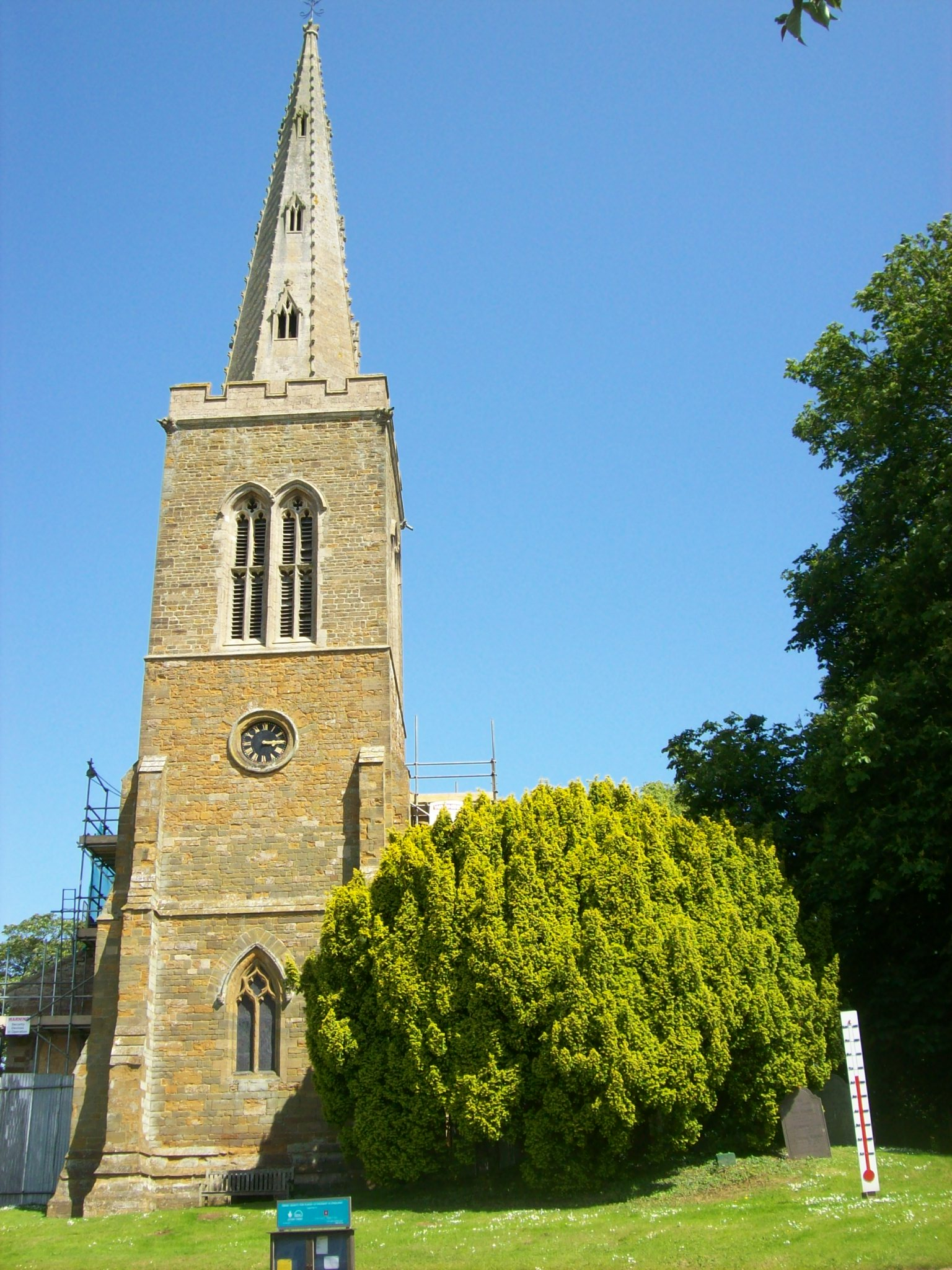 All Saints' parish church, Naseby, Northamptonshire, seen from the west